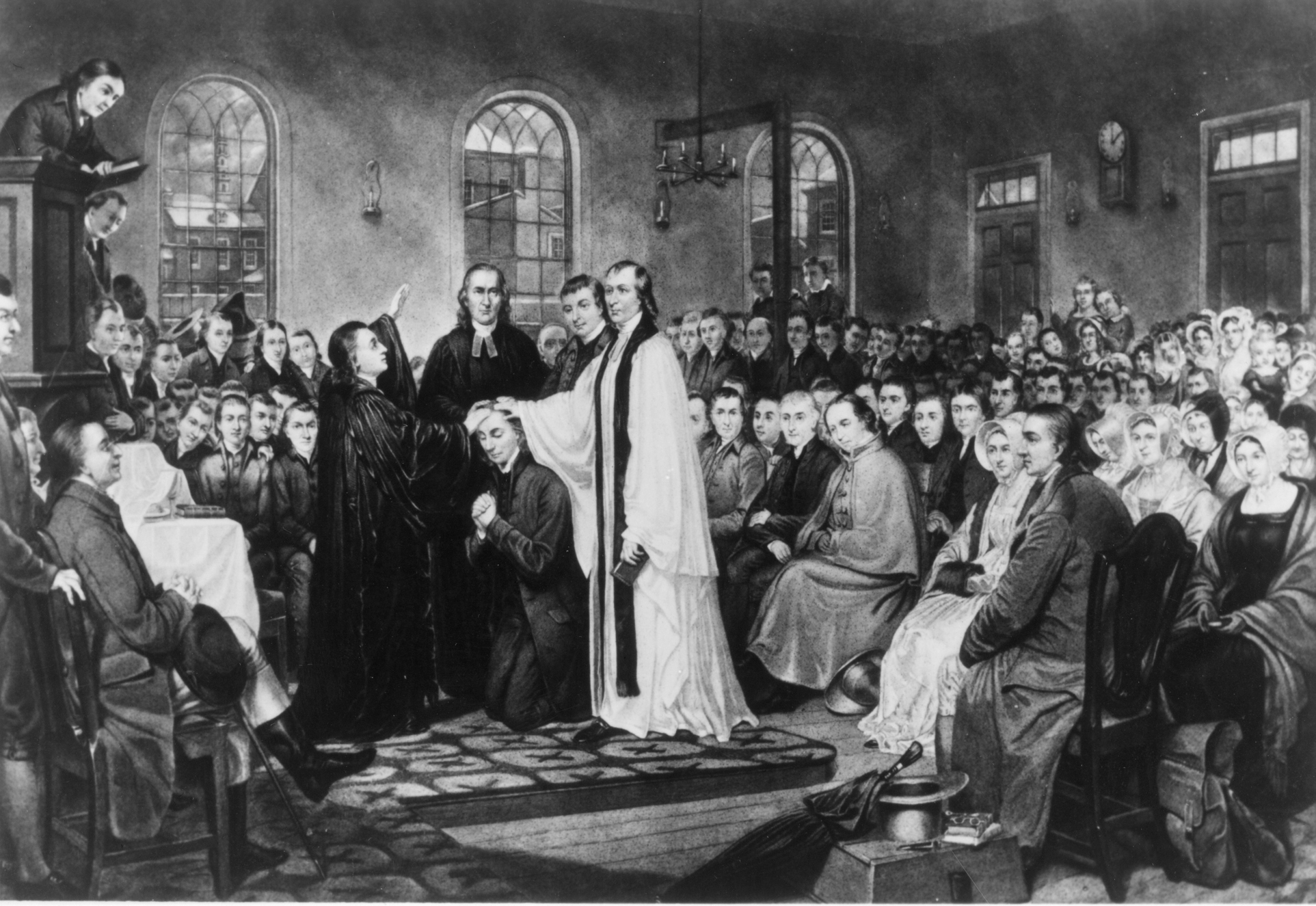 The ordination of Bishop Francis Asbury by Bishop Thomas Coke at the Christmas Conference establishing the Methodist Episcopal Church of the United States at Baltimore, Maryland, in the winter of 1784